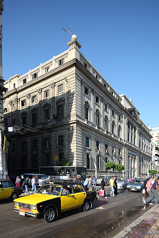 Façade of the Mixed Tribulas, Tahrir square, Alexandria, Egypt